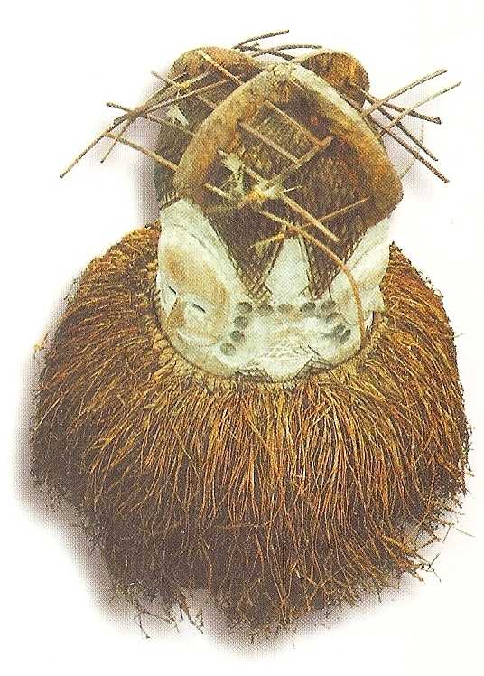 Bodi gabonese traditionnal mask from the Fang ethny